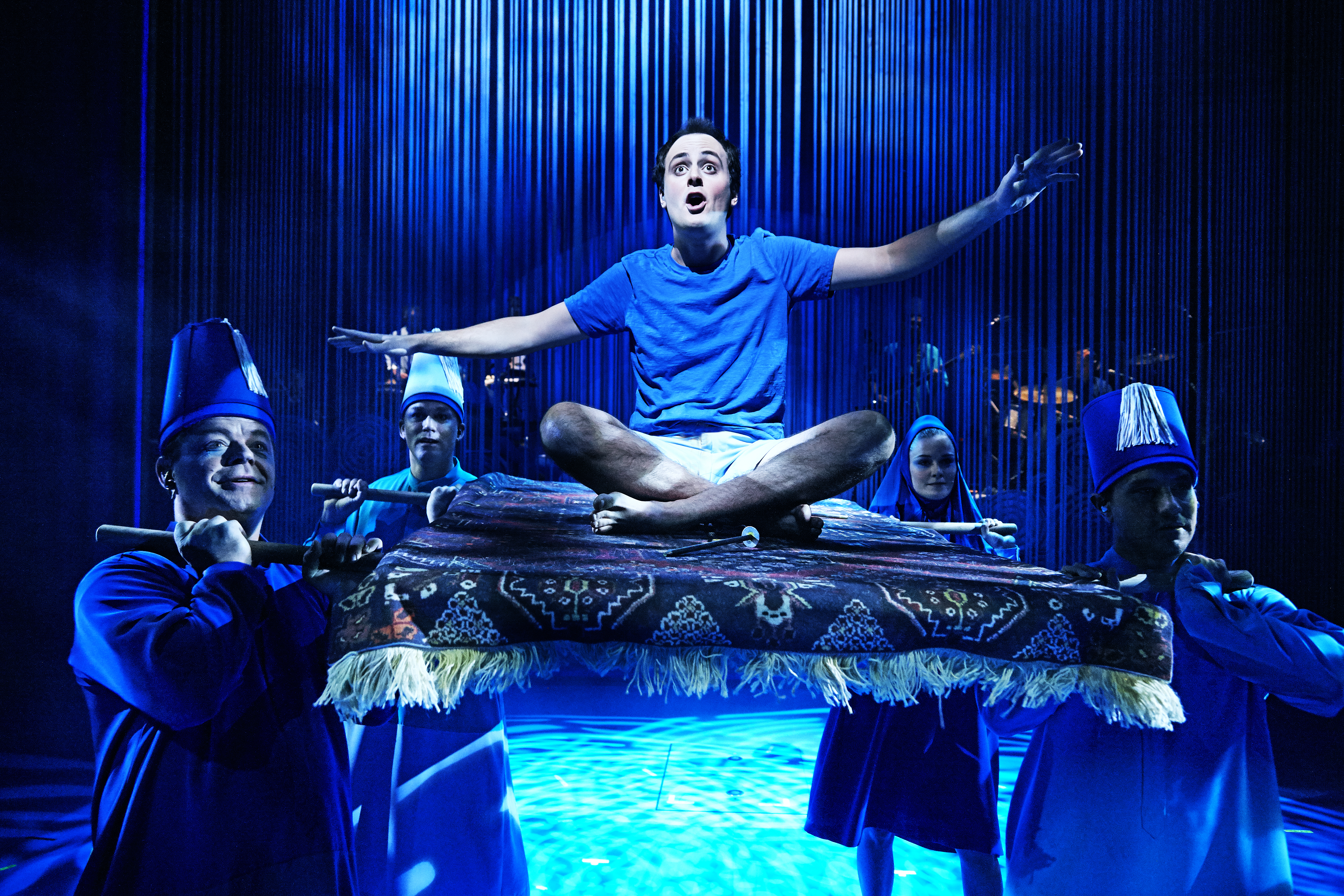 Kristian Gintberg and others in the Copenhagen theater Folketeatret's production of the play "Hodja fra Pjort" based on the novel by Ole Lund Kirkegaard from 1970.